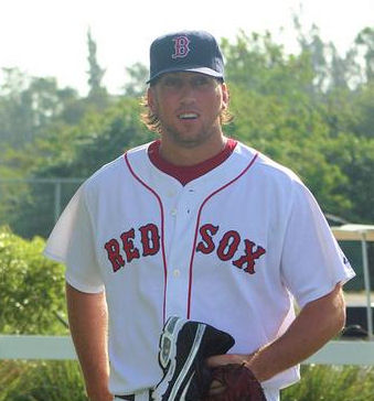 Description Craig Hansen Date2.24.08SourceOwn workAuthorHappyHarvick2962 (talk) 03:07, 6 April 2008 . . HappyHarvick2962 . . 339×364 (36 KB) Craig Hansen